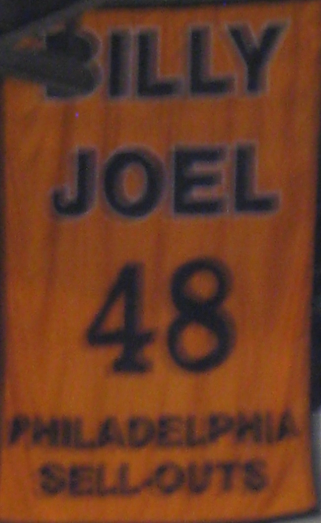 Billy Joel - Philadelphia Sellouts